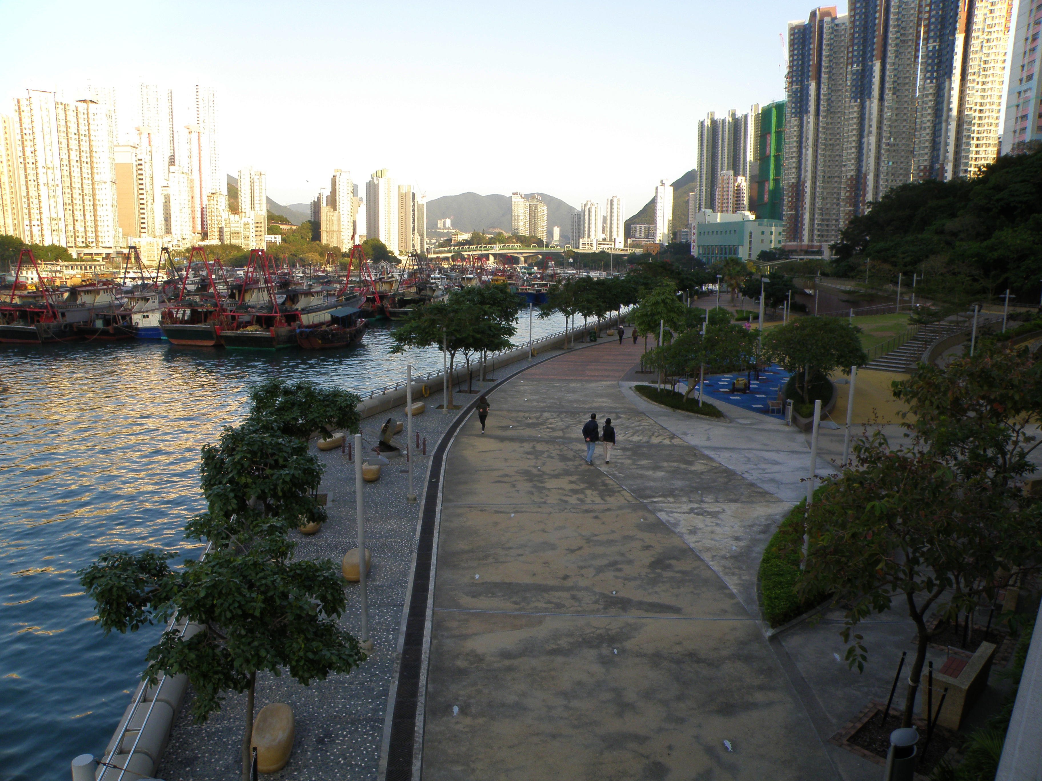 Wind Tower Park in Ap Lei Chau, Hong Kong.